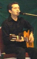 Picture of Serhat Baran